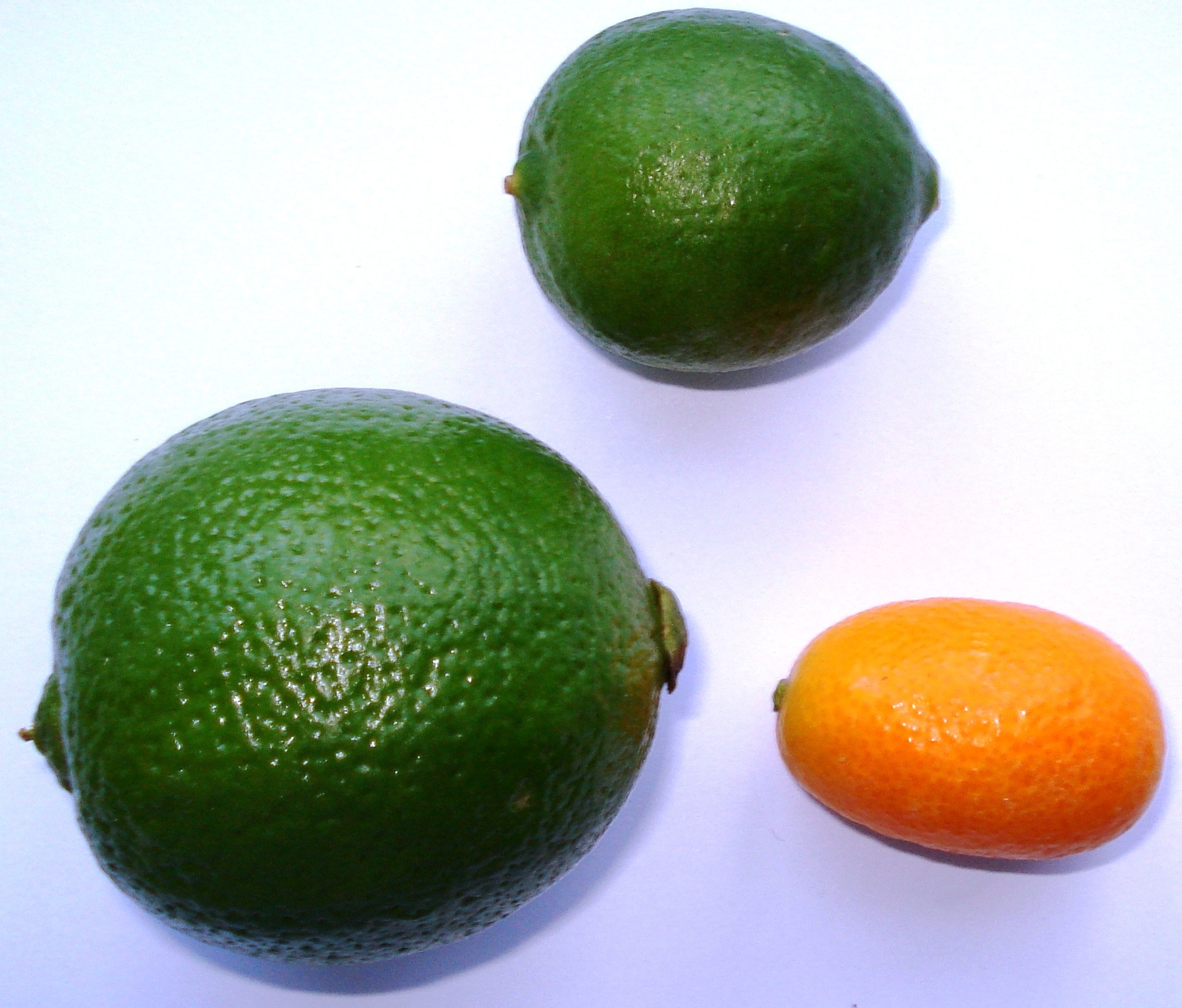 Limequat (top), key lime (left), and kumquat (right).